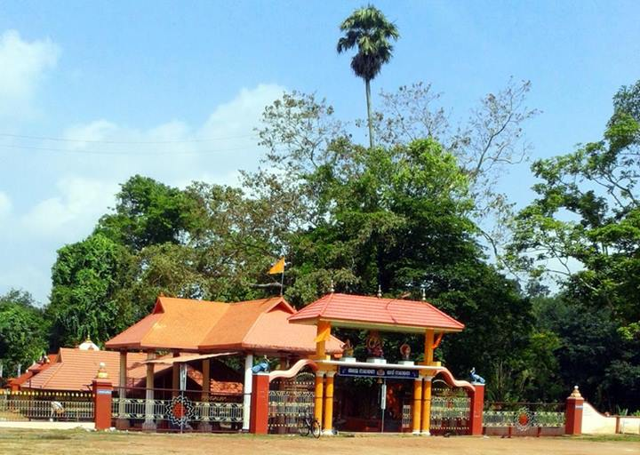 പഴകുളം പുന്തലവീട്ടിൽ ദേവീക്ഷേത്രം